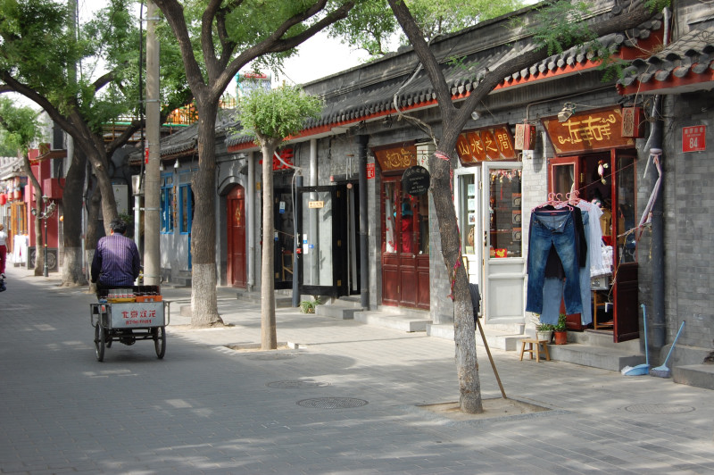 A hutong in the Dongcheng district of Beijing, with shop signs.南锣鼓巷